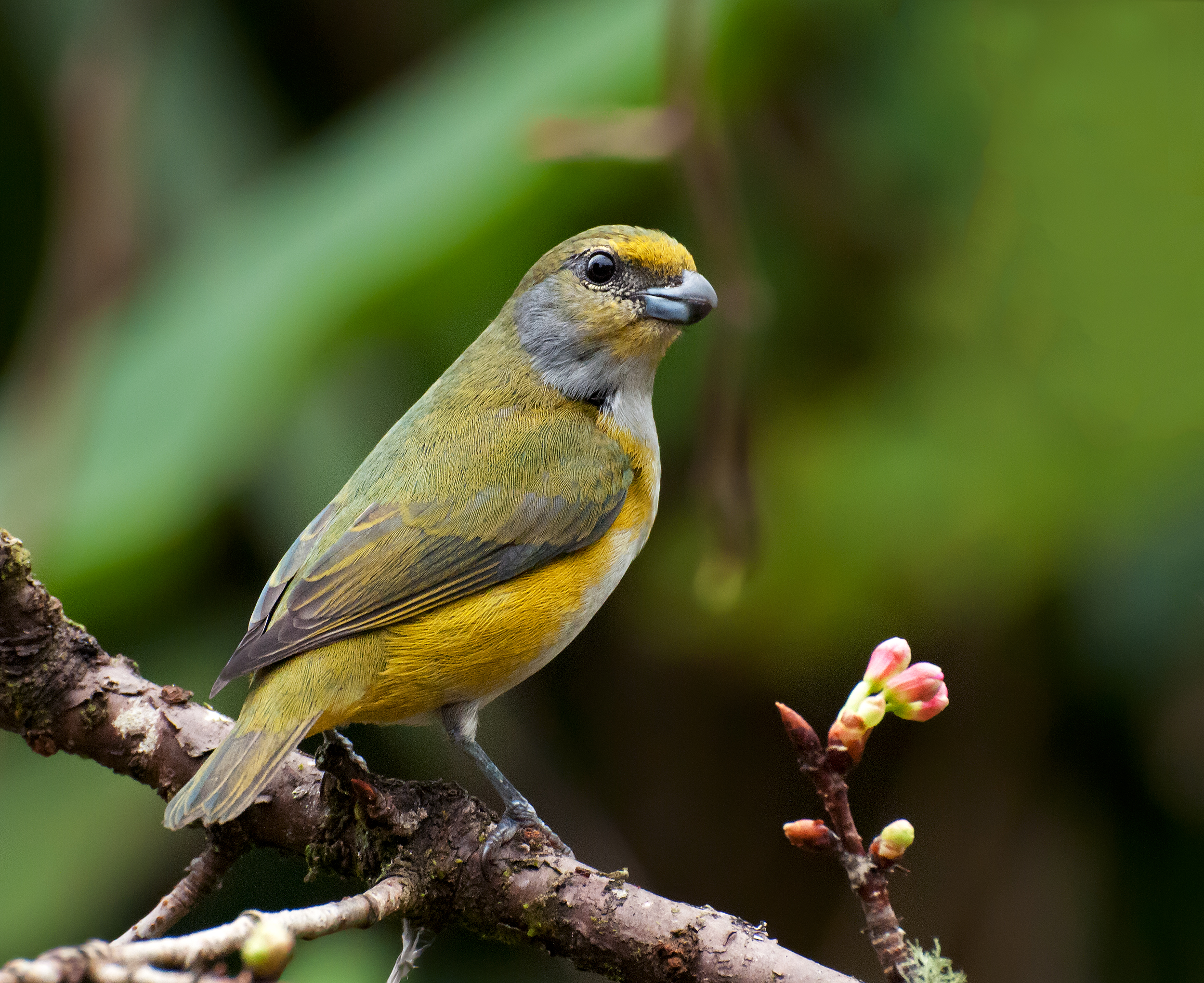 A female Green-chinned Euphonia in Vale do Ribeira, Registro, São Paulo, Brazil.